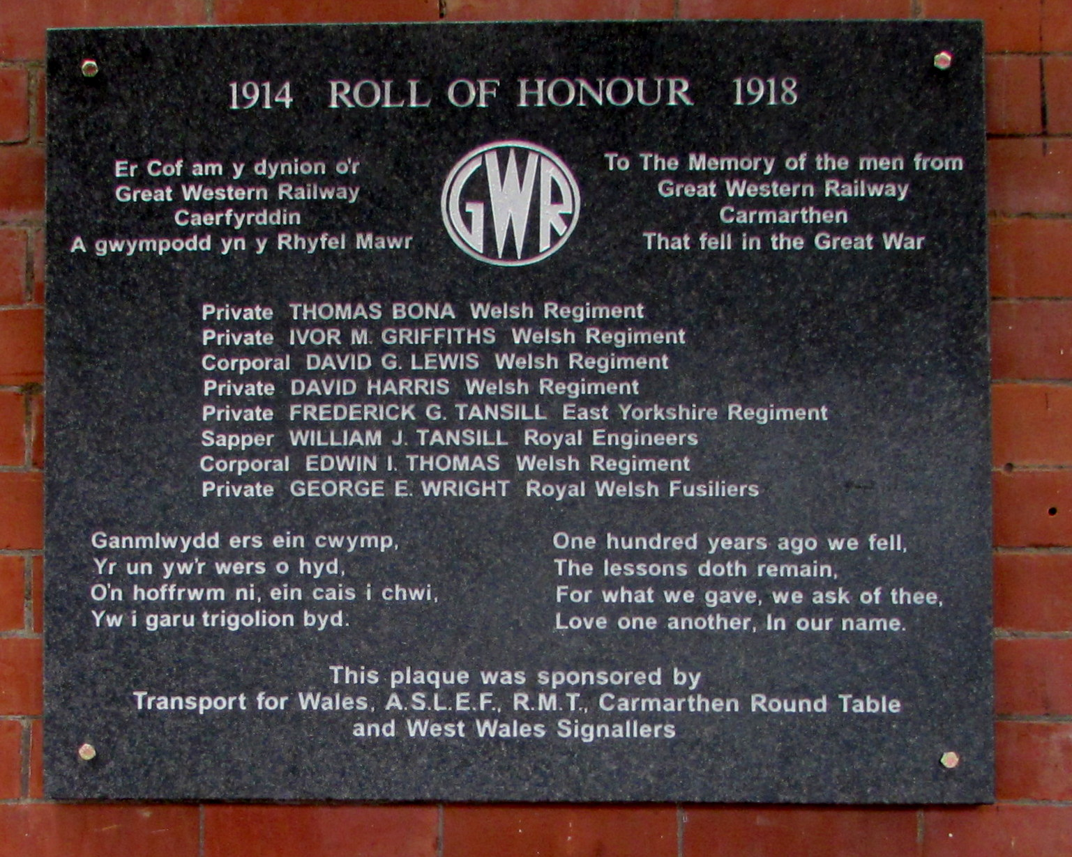 Roll of Honour on the wall of Carmarthen railway station platform 1